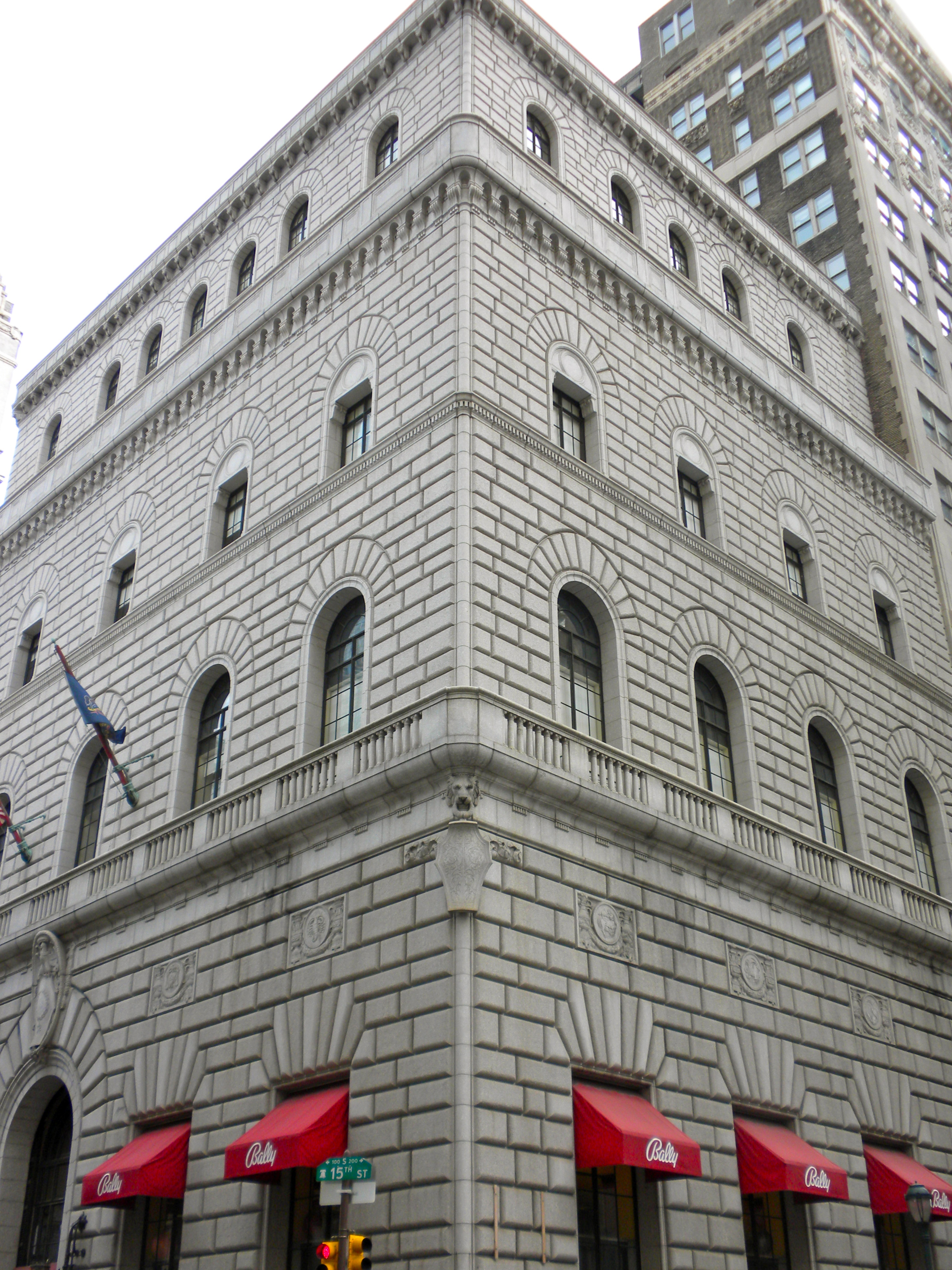 Drexel and Company Building in Philadelphia on NRHP since February 8, 1980. At 135–143 South 15th Street in the Rittenhouse Square East neighborhood in Center City. Right around the corner from the Old Stock Exchange building. Horace Trumbauer, architect.